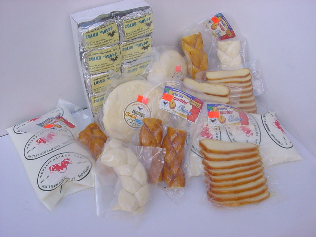 Agriservice Armenian cheese products.